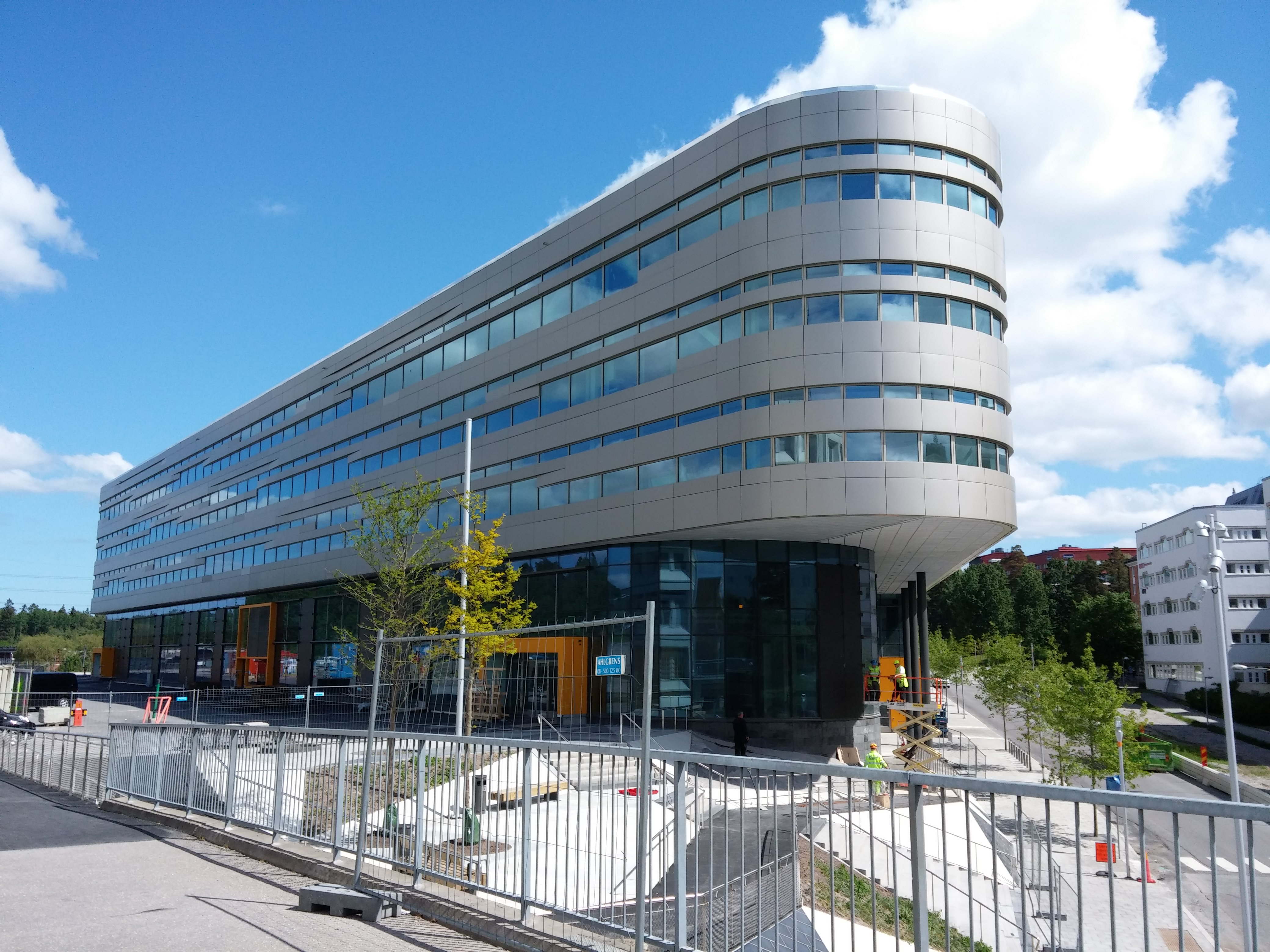 The Nod building in Kista, Sweden.